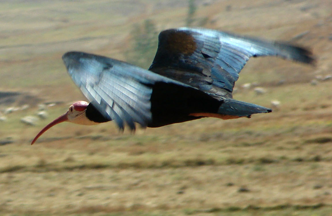 Southern Bald Ibis (Geronticus calvus) captured flying in the wild. Lesotho on September 29th 2008.